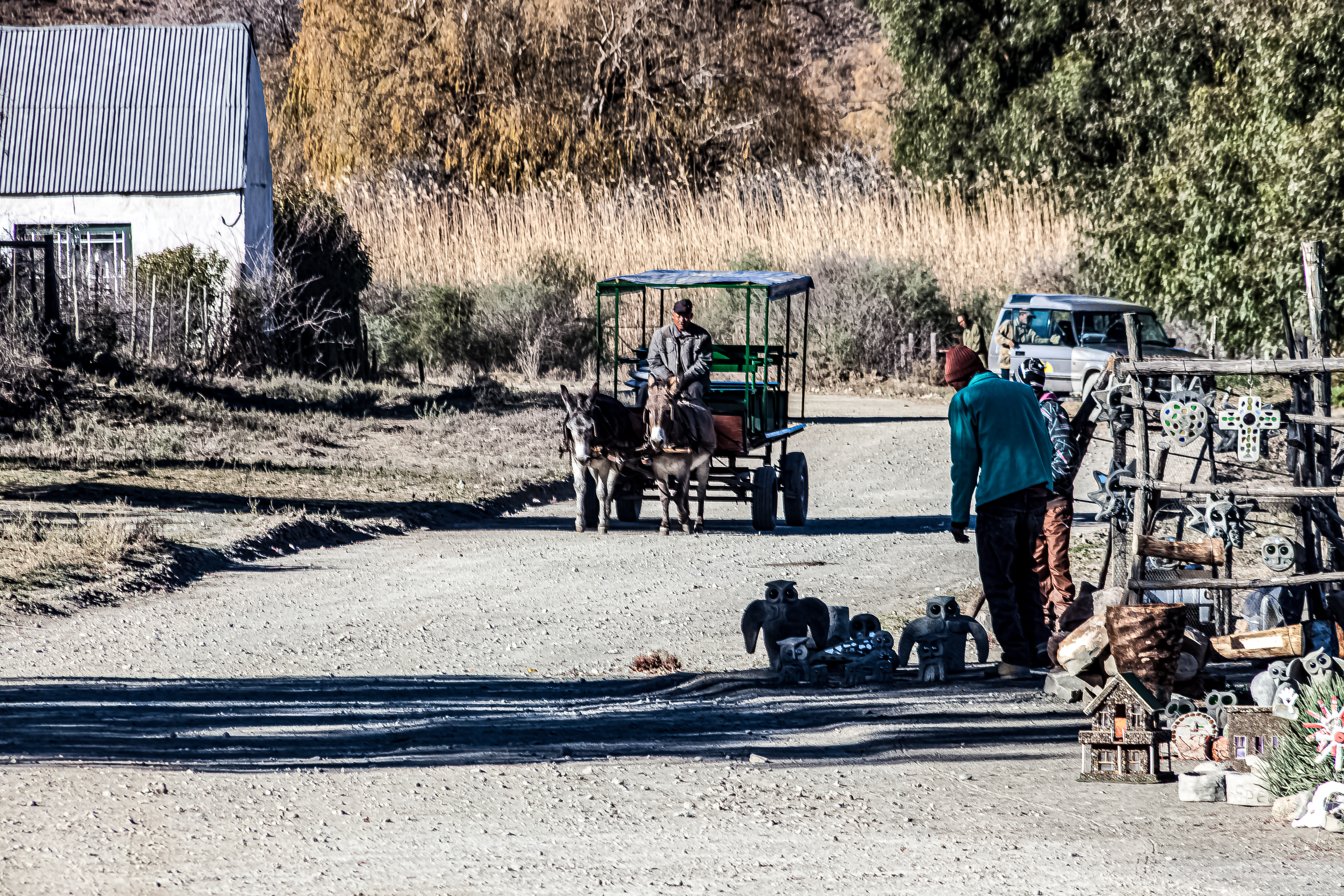 Donkey Drawn cart in New Bethesda just outside the Karoo in South Africa This is an image with the theme "Africa on the Move or Transport" from: South Africa